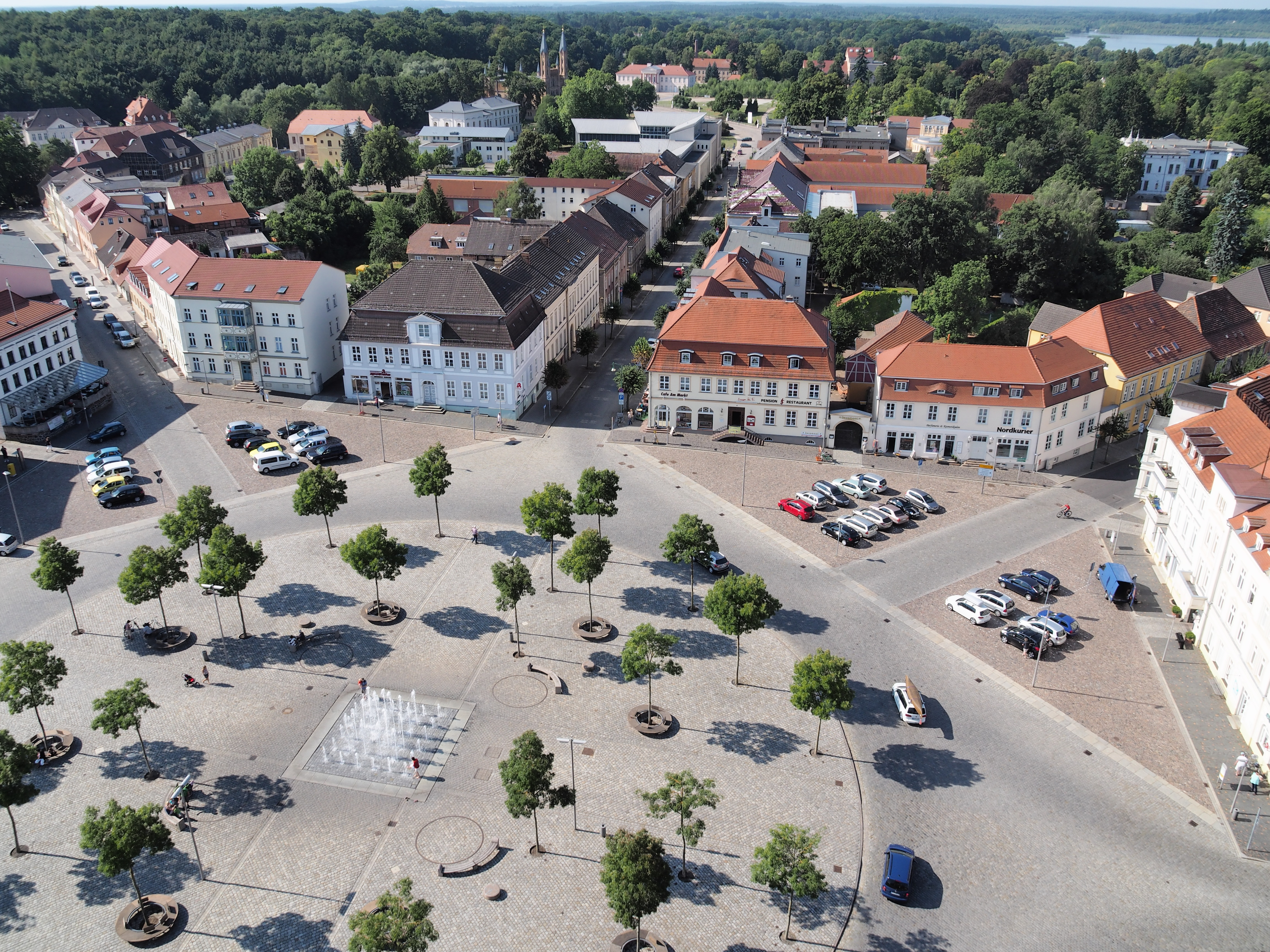 Market plate in Neustrelitz, German Federal State Mecklenburg-Vorpommern. View from the church tower.